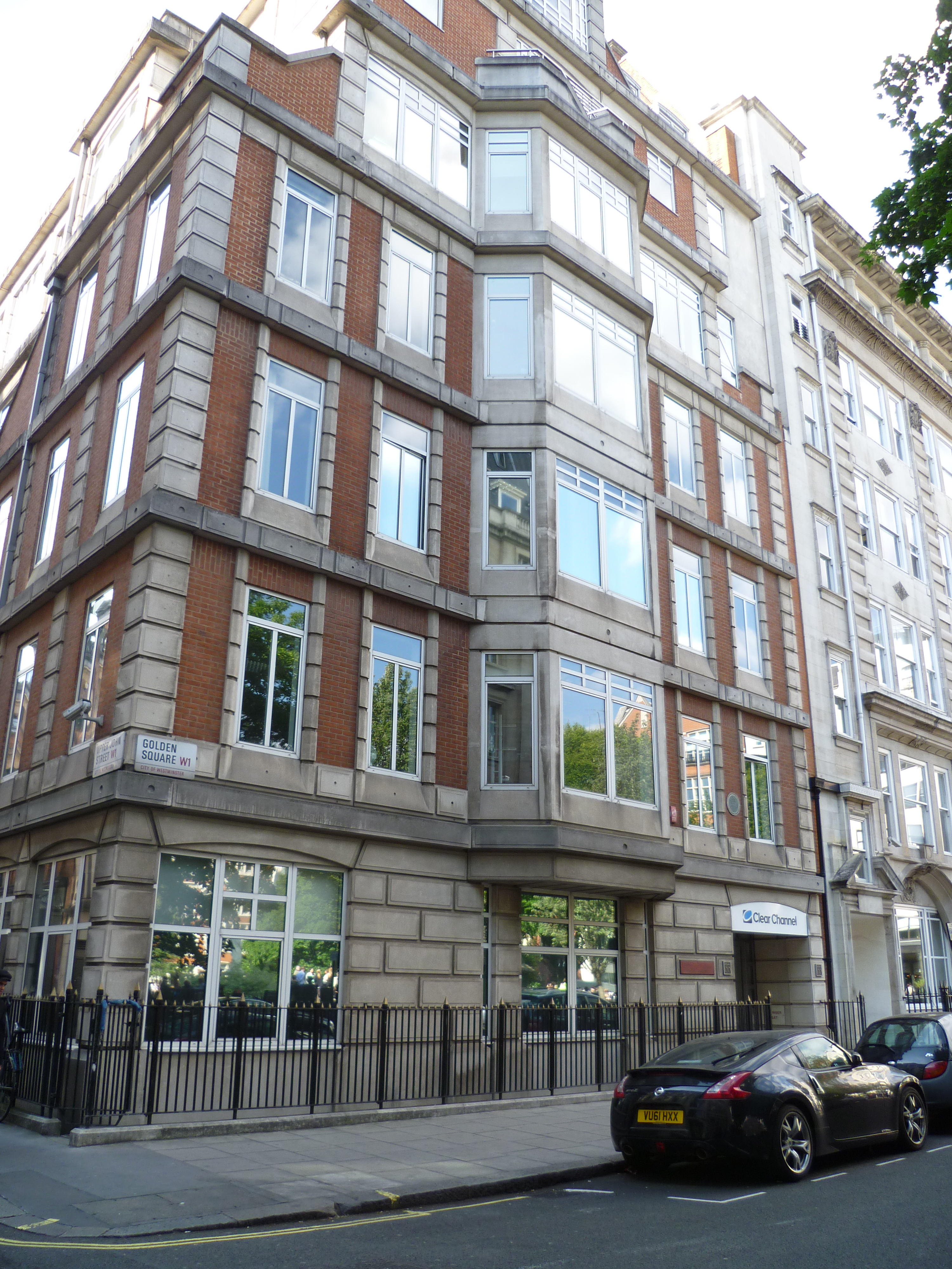 Clear Channel Golden Square London.